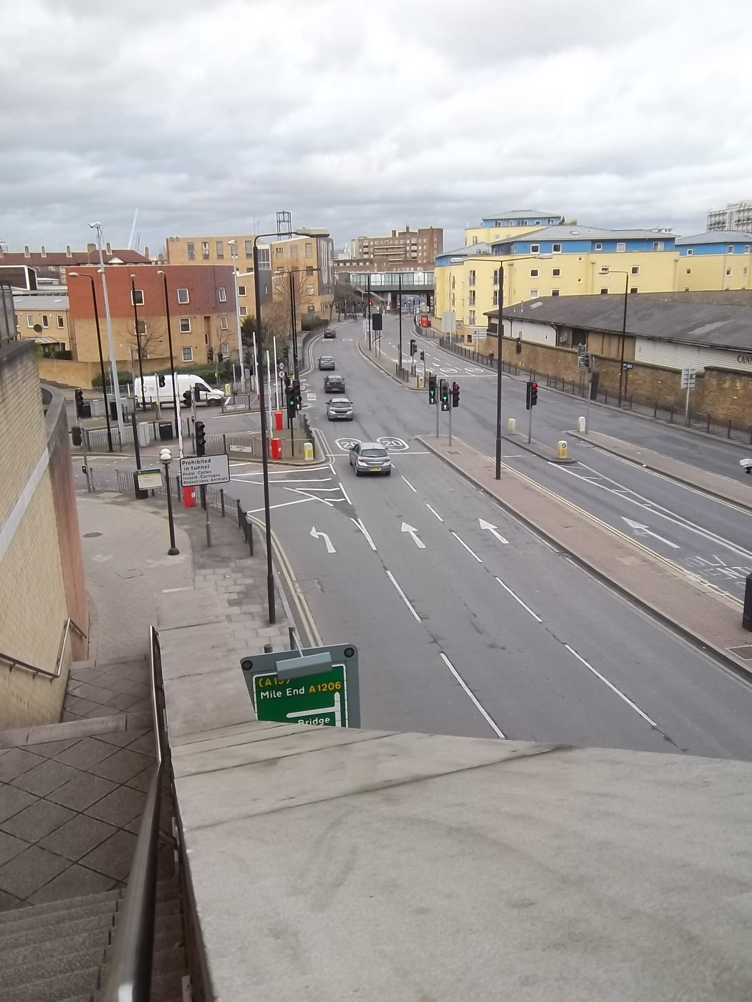 View of A1206 Westferry Road from Westferry Circus (upper)